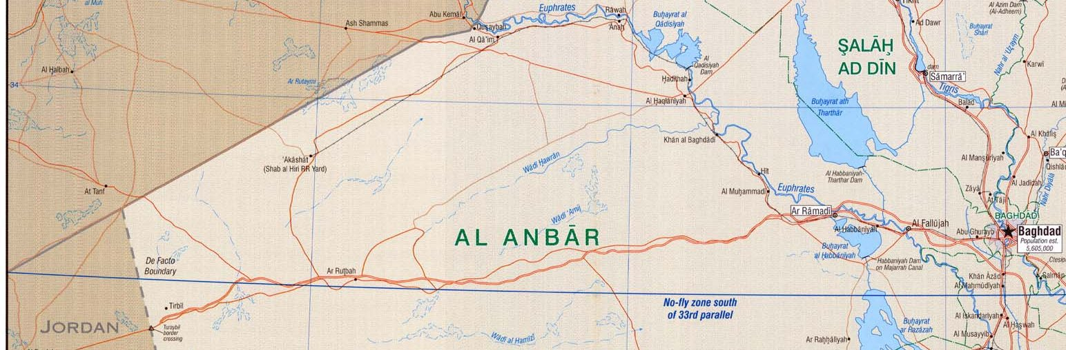 A cropped version of a CIA map of Iraq.